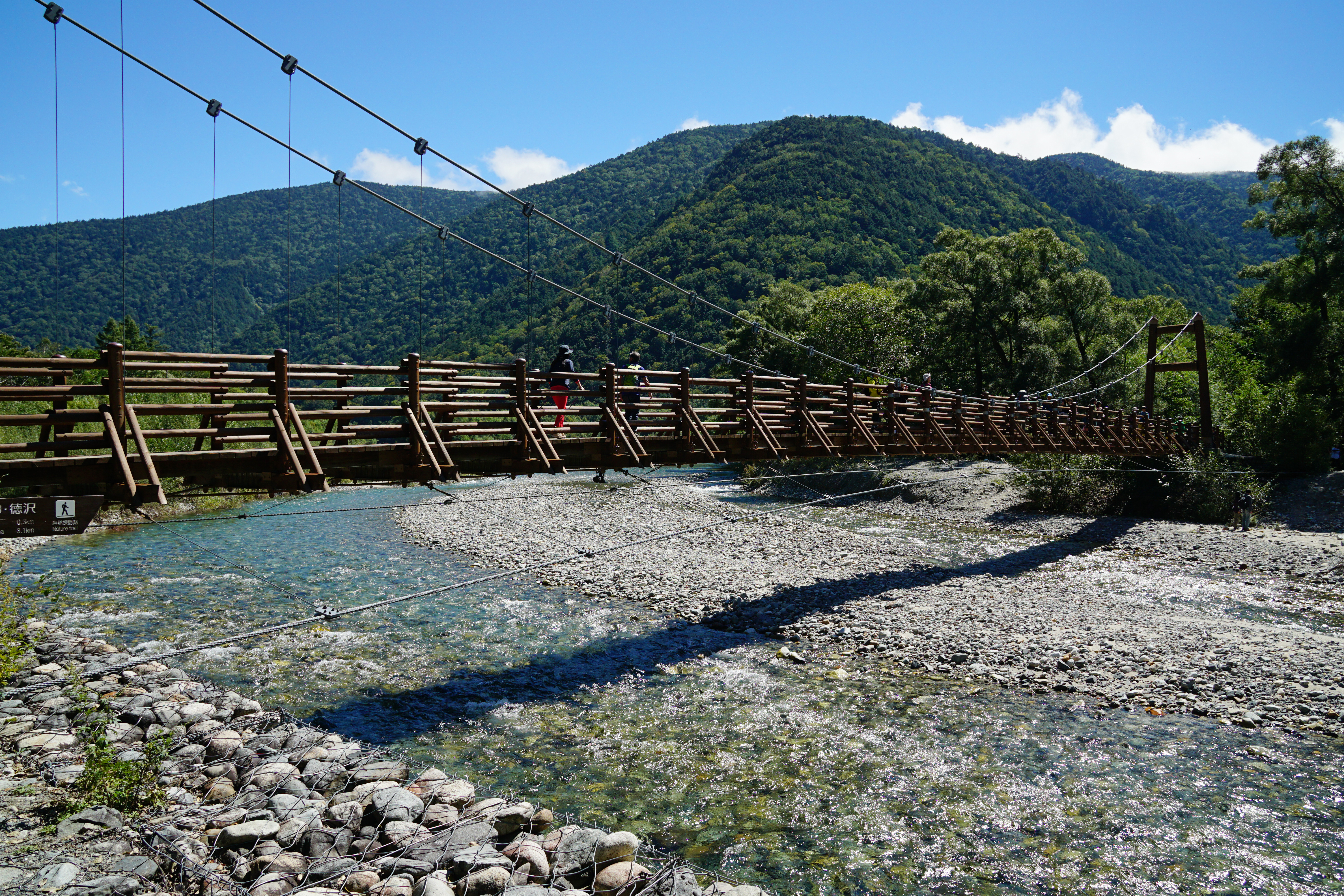 Azusa River and Myojin Bridge at Kamikochi, Matsumoto, Nagano prefecture, Japan